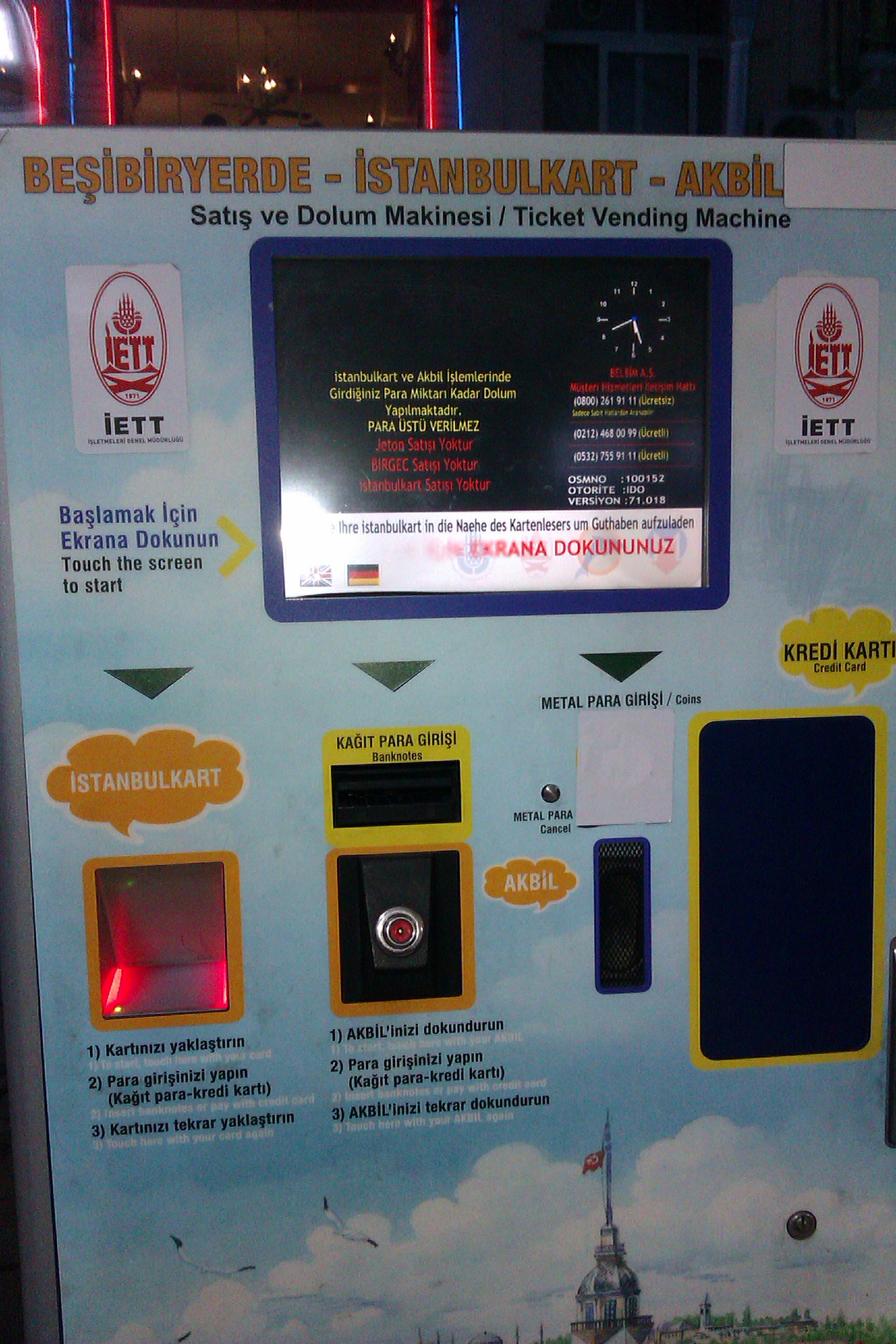 Istanbul Metro billet vending machine